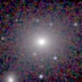 2MASS image of NGC 4709.